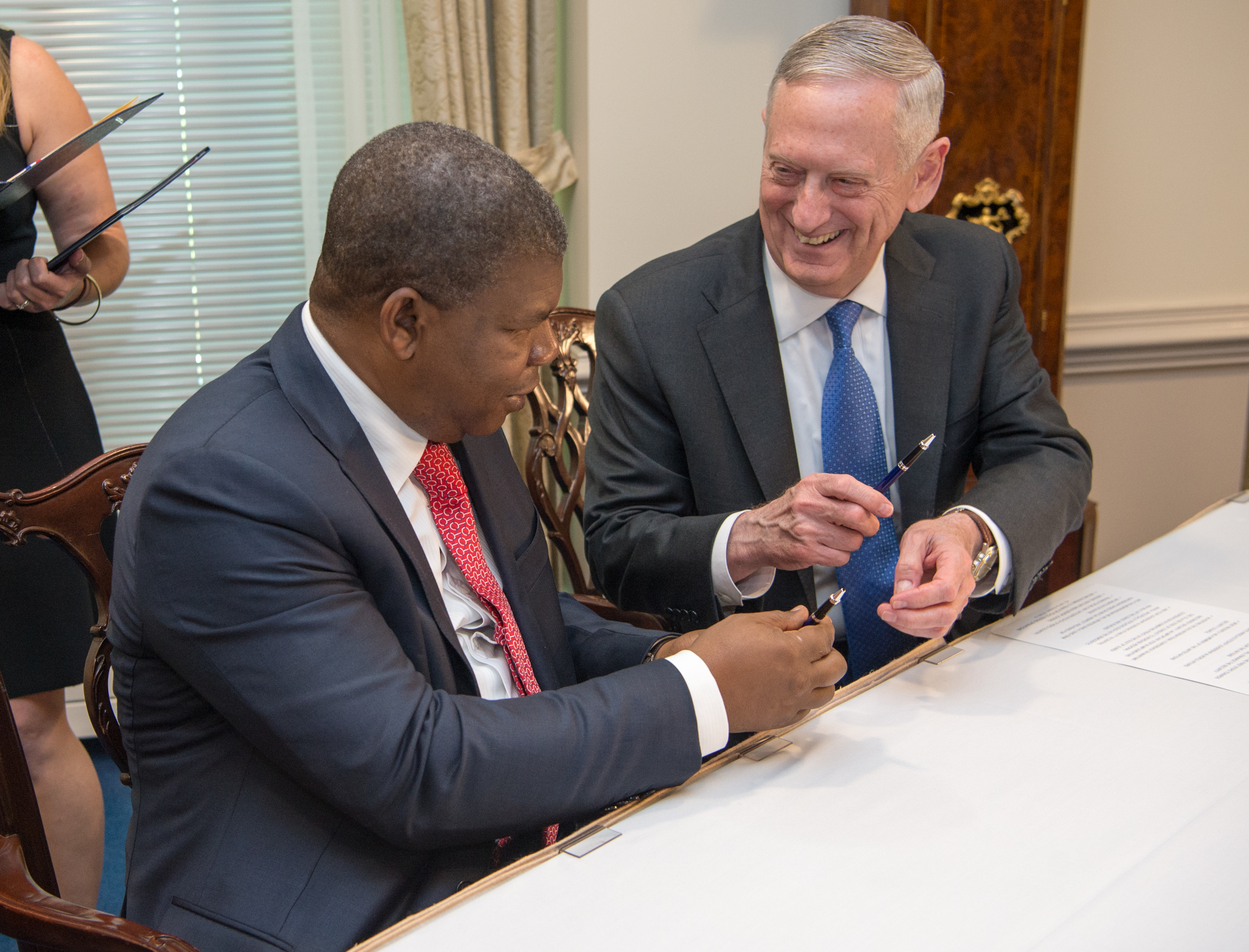 Secretary of Defense Jim Mattis and Angola’s Minister of Defence Joao Lourenco exchange pens after signing memorandums of defense cooperation during a meeting at the Pentagon in Washington, D.C., May 17, 2017. (DOD photo by U.S. Air Force Staff Sgt. Jette Carr)